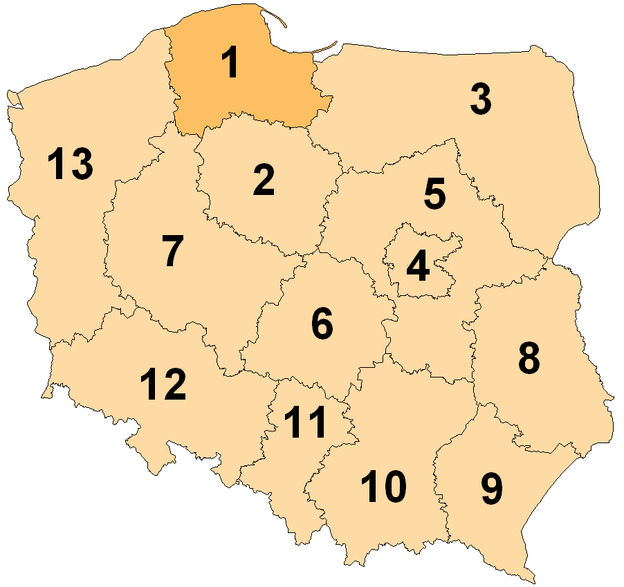 Pomeranian (European Parliament constituency) - European Parliament constituencie in Poland